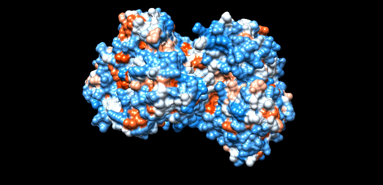 Processed image of the hydrophobic structure of Cholesterol 7-alpha-hydroxylase